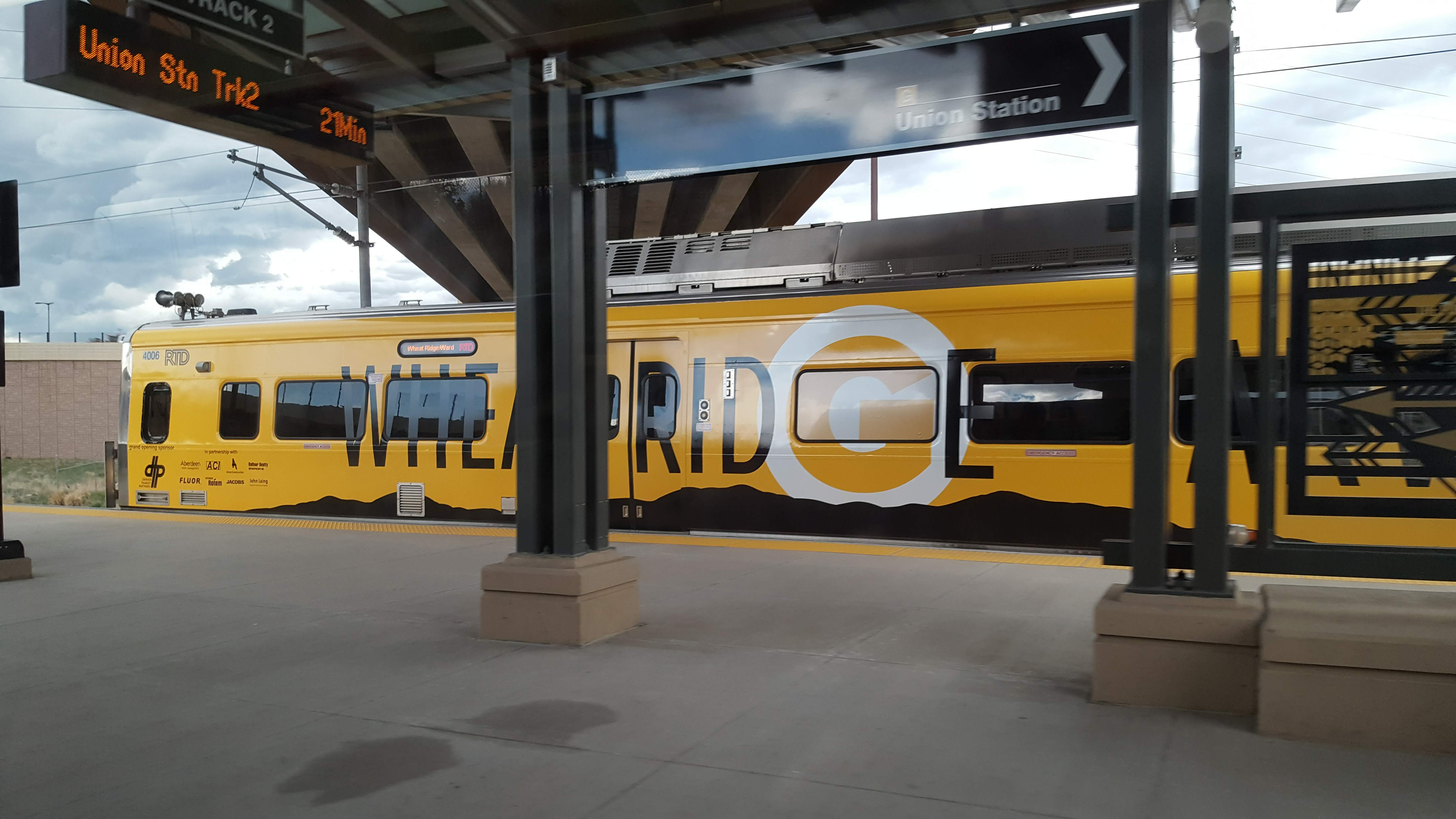 G Line wrapped train at Pecos Jct station, opening day